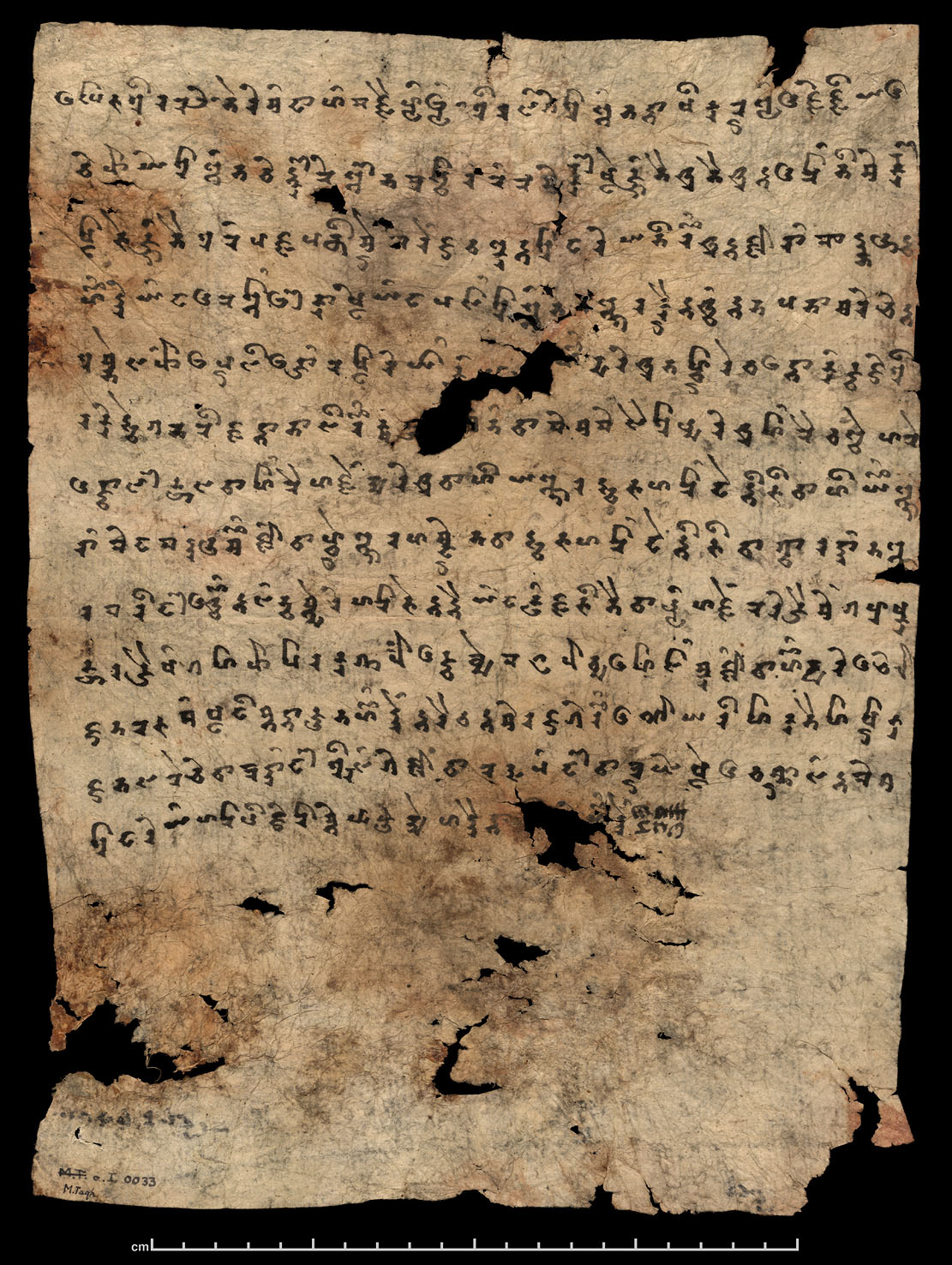 A letter from the Khotanese official Iramana stationed at a Tibetan fort to his wife at home. M.Tagh.a.I.0033.